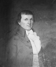 John E. Colhoun, from the Biographical Directory of the United States Congress.